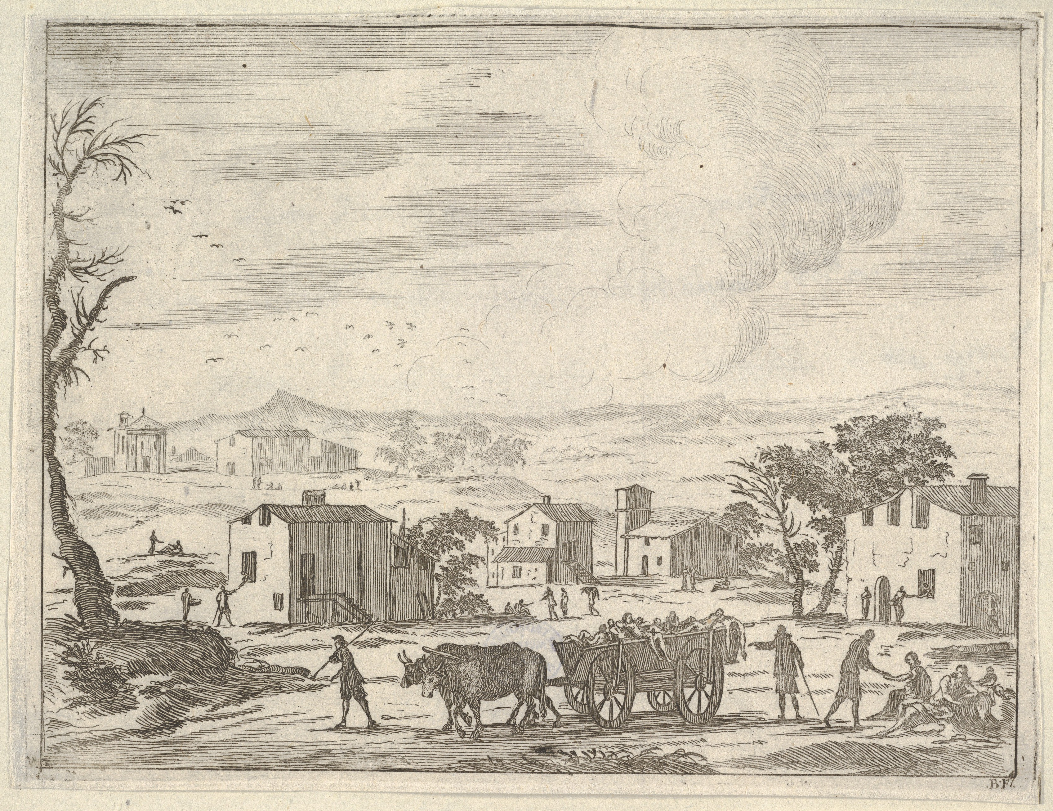 Print; Prints